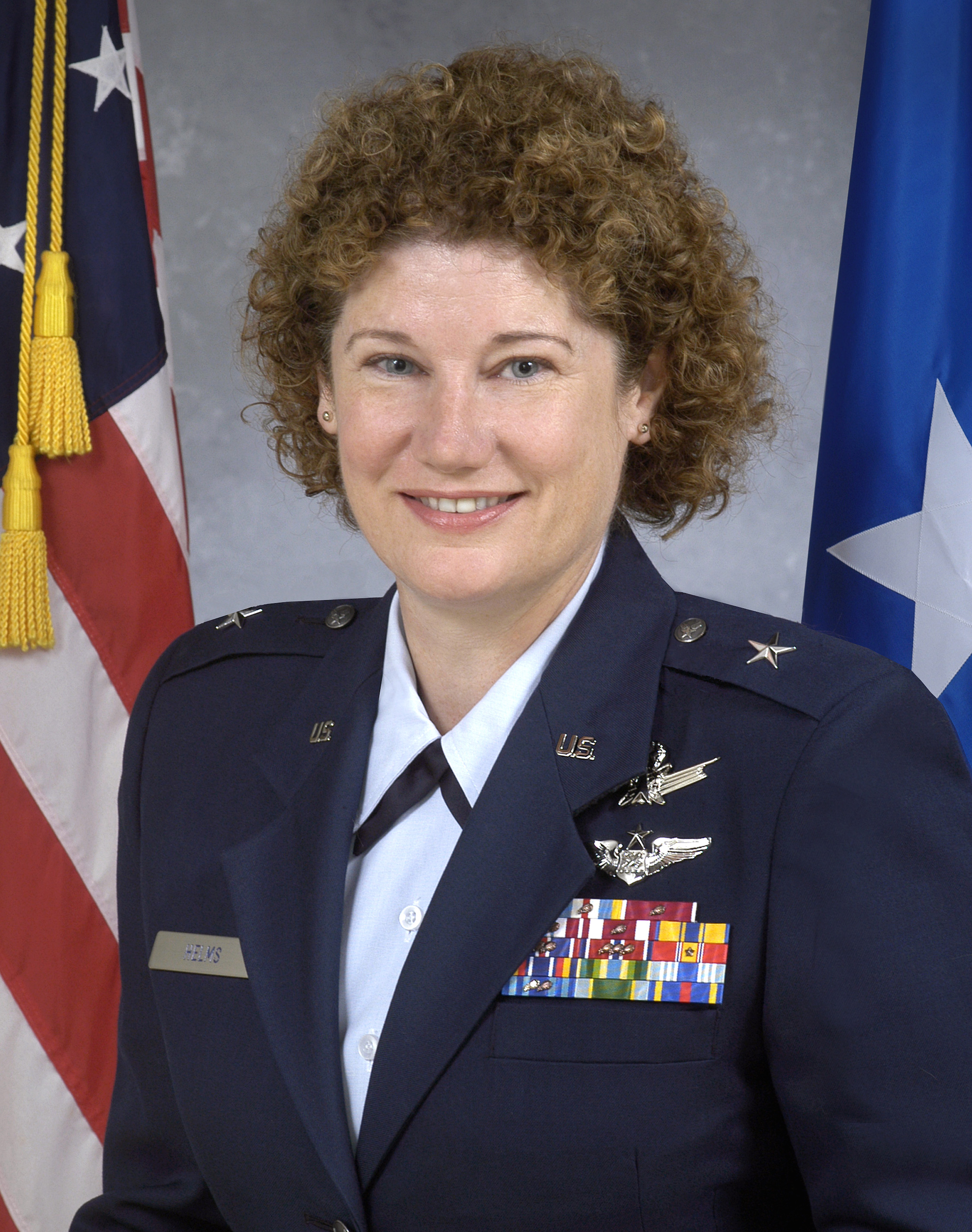 Susan Jane Helms is a United States Air Force Brigadier General and a former NASA astronaut.